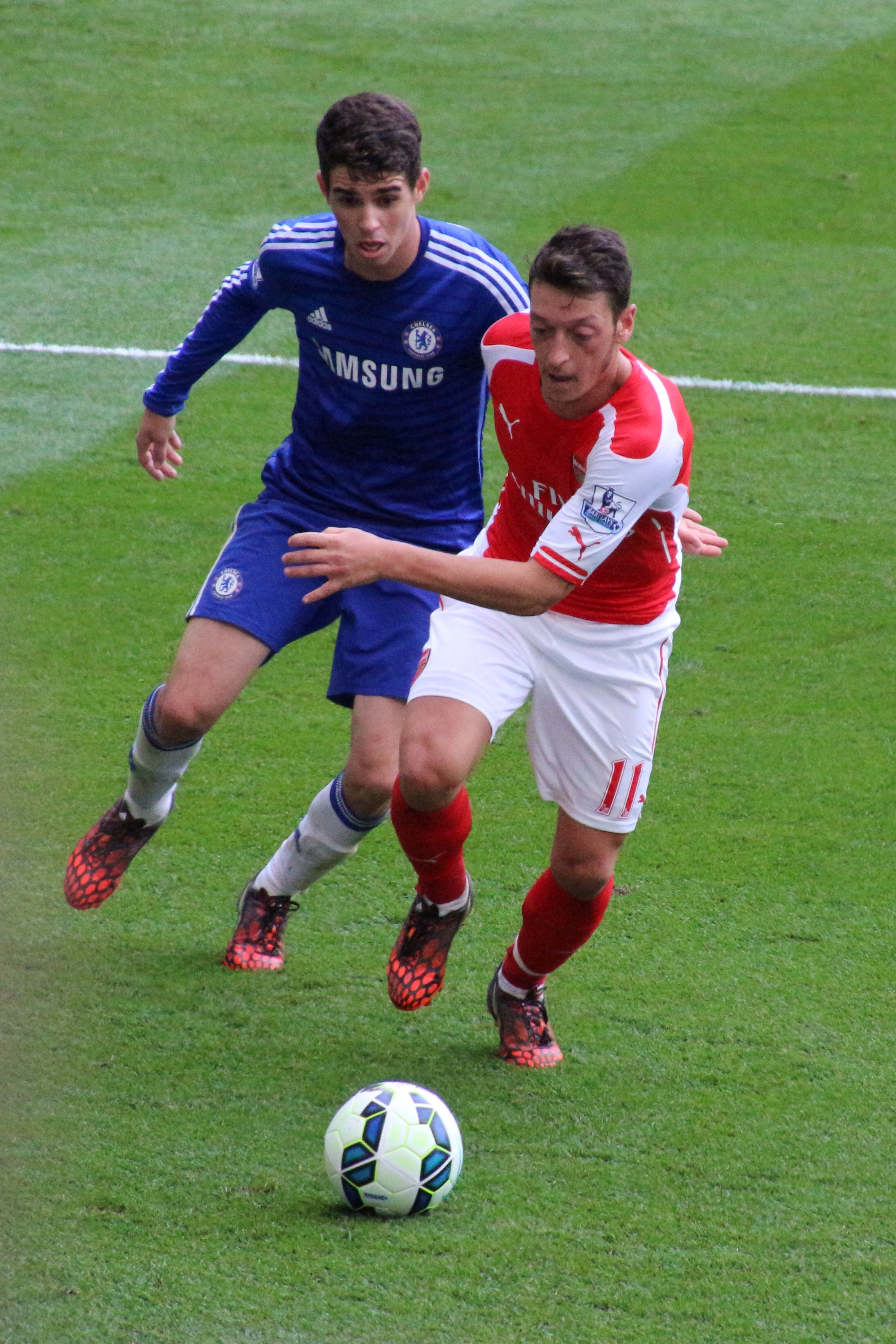 Premier League match between Chelsea and Arsenal at Stamford Bridge on 5 October 2014.